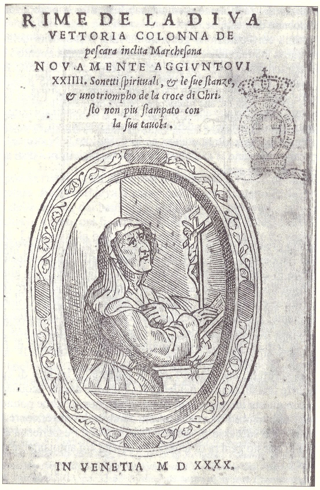 The title page of an early edition of the Rime published at Venice.